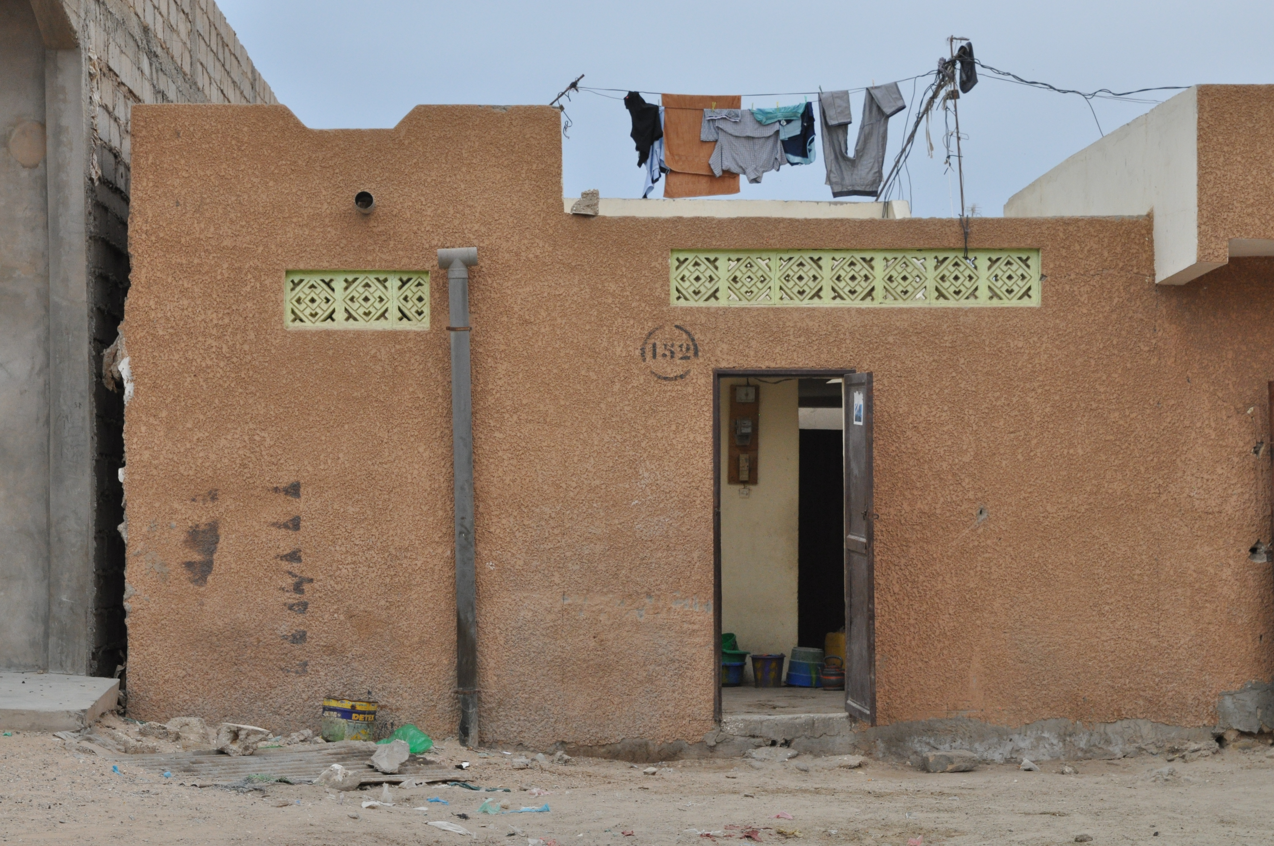 House in Nouakchott (Mauritania)